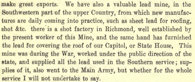 From "William & Mary Quarterly Volume 2 Series 2" dated 1922. However, the date of the text is far earlier. It is from letters from Gen. Edward Carrington to Alexander Hamilton that detail the lead mines in SW Virginia and the shot factory in Richmond, VA.